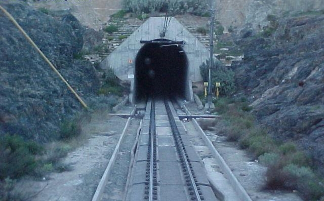 Hex River Tunnel 4, Eastern PortalLocation: Hex River Valley, De Doorns, Western Cape